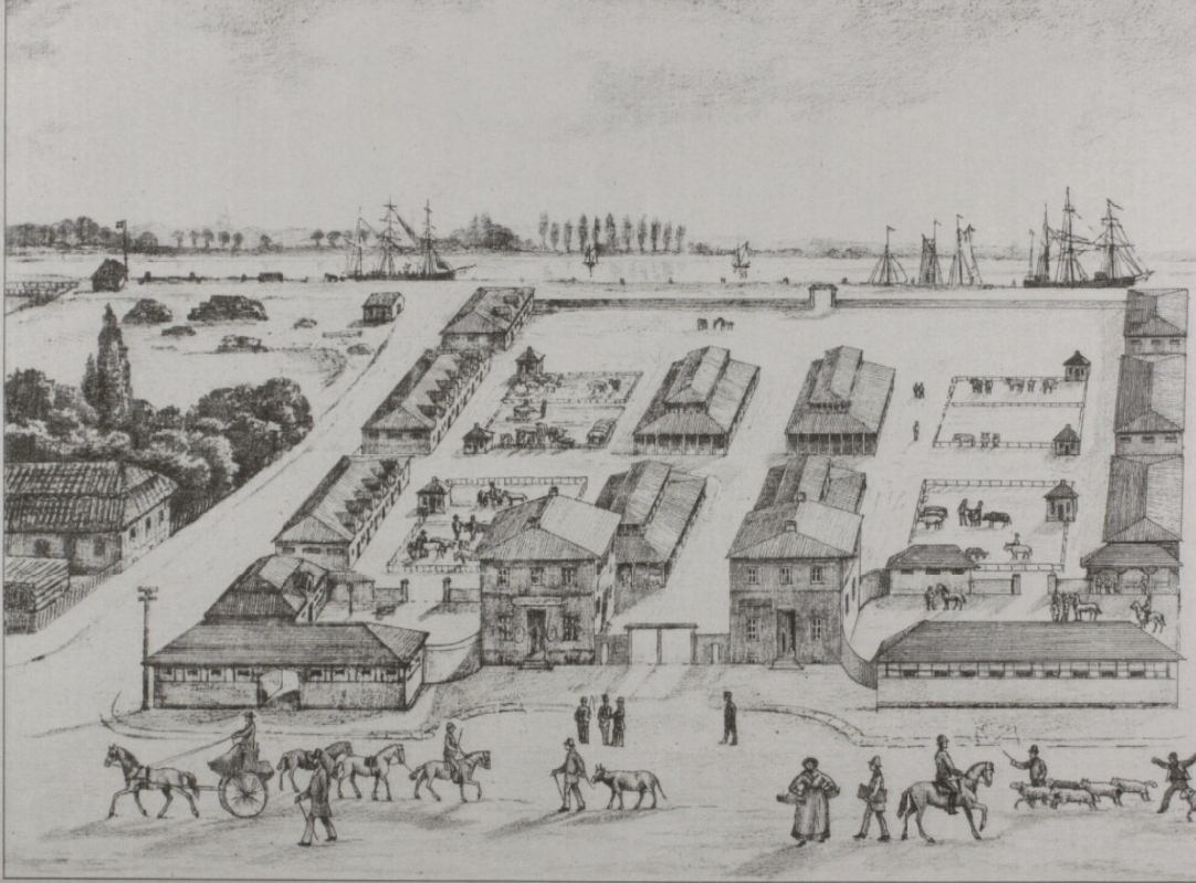 Kjøbenhavns nye Kvægtorv in Copenhagen, Denmark